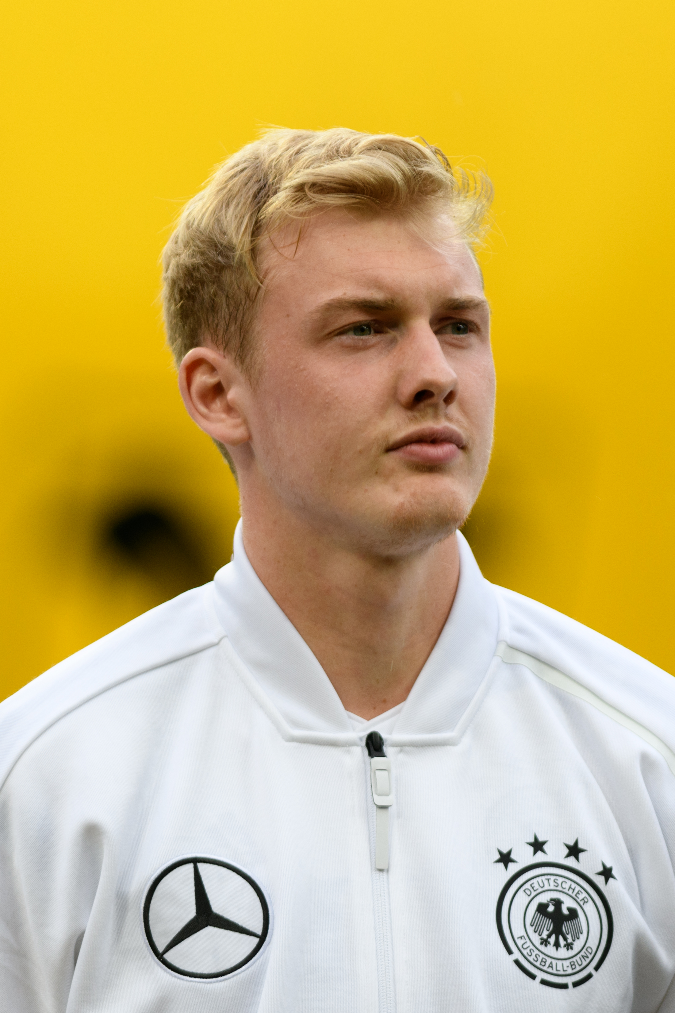 FIFA Friendly Match Austria vs. Germay 2018/06/02 in Klagenfurt/Woerthersee. Picture shows Julian Brandt (GER).